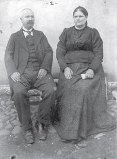 Portrait of Bulgarian national revival person Spas Prokopov